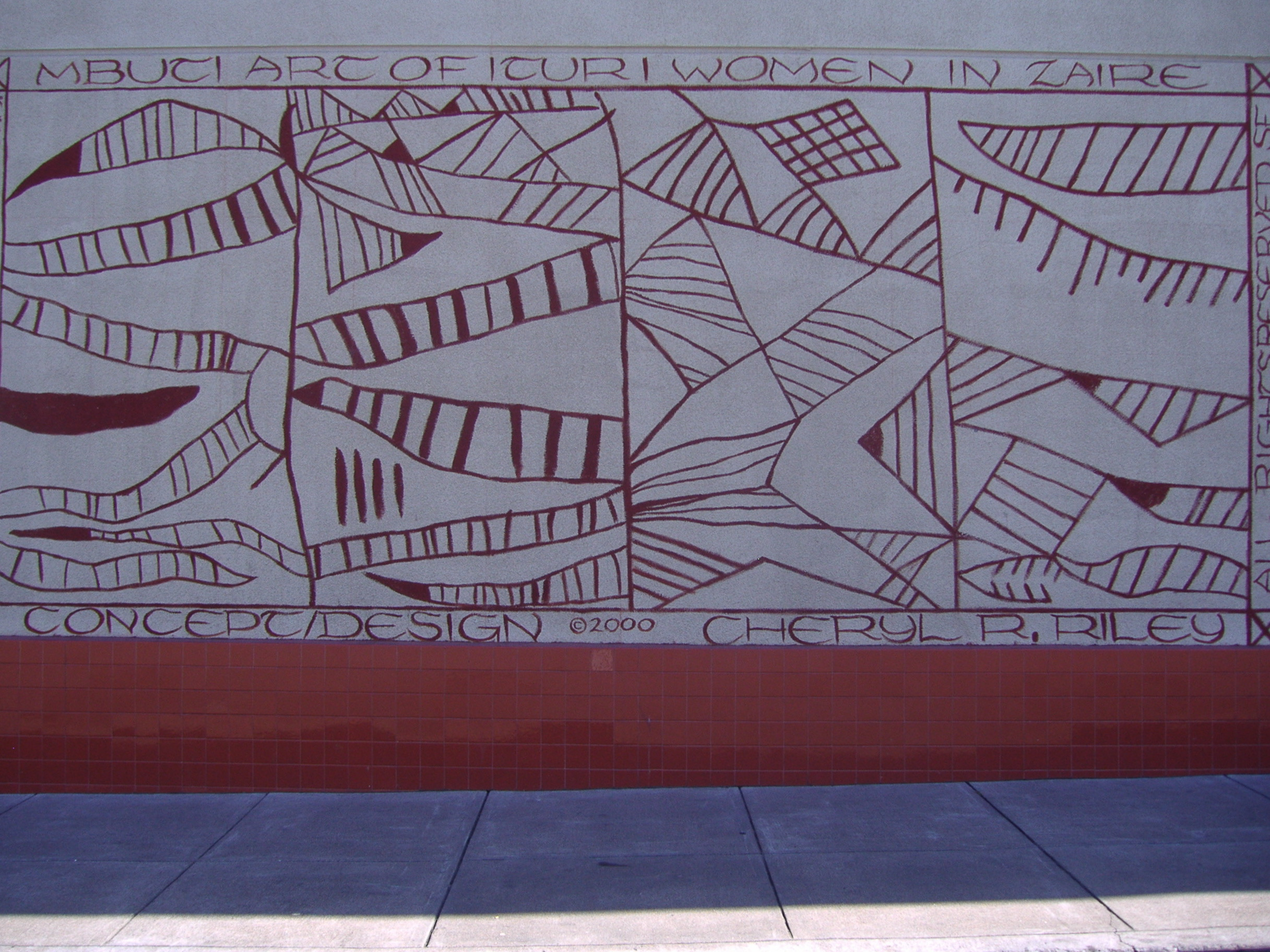 MBUTI WOMAN (2000), a mural designed by Cheryl R. Riley in San Francisco, CA, Bayview District.